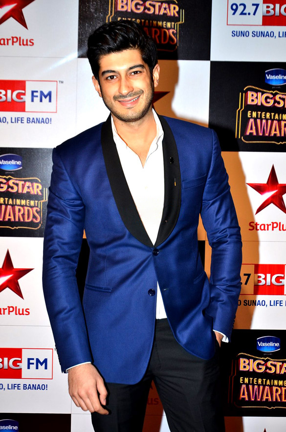 Mohit Marwah on BIG Star Entertainment Awards 2014